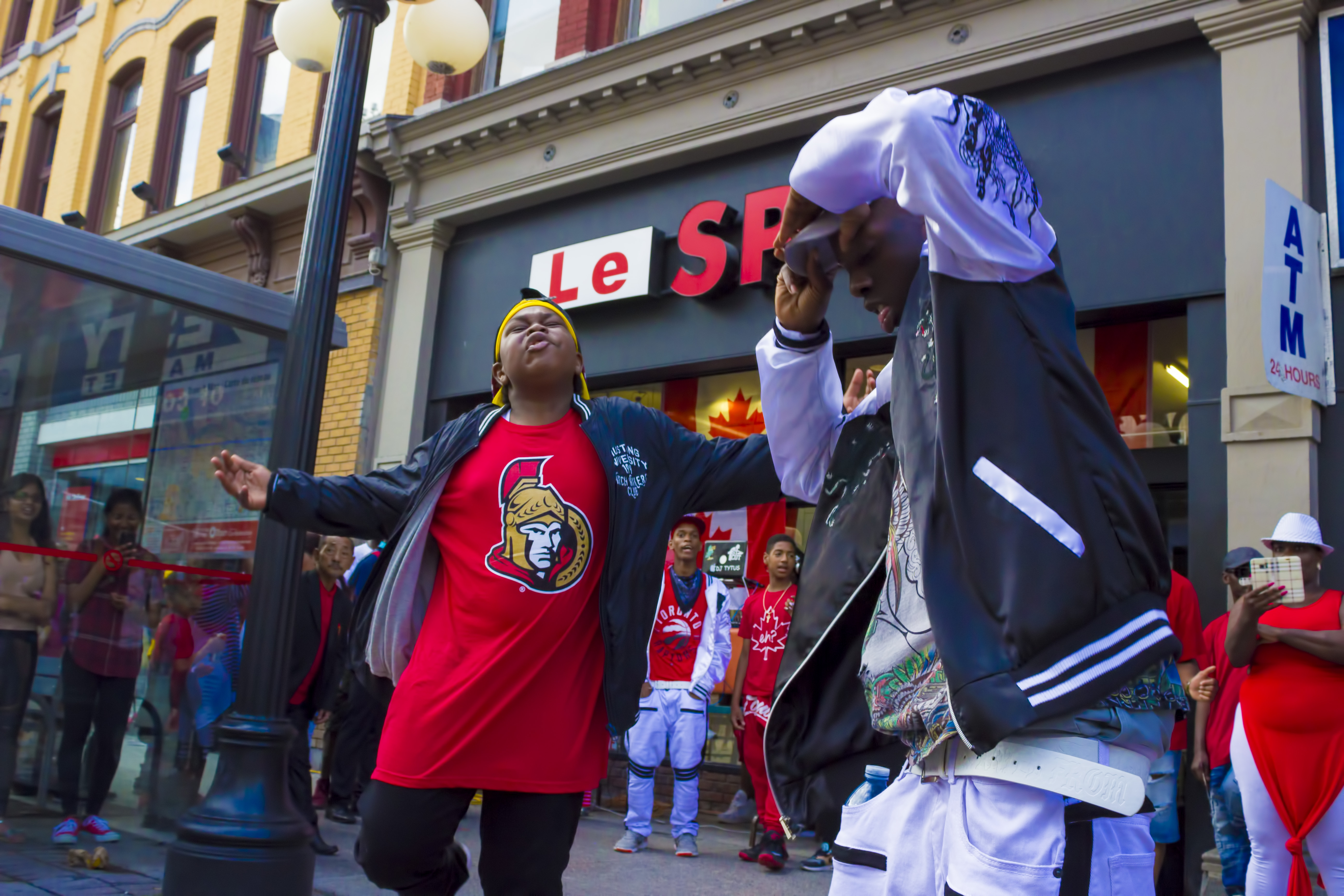 Taken outside of Le Spot, in Downtown Ottawa, on Rideau St.